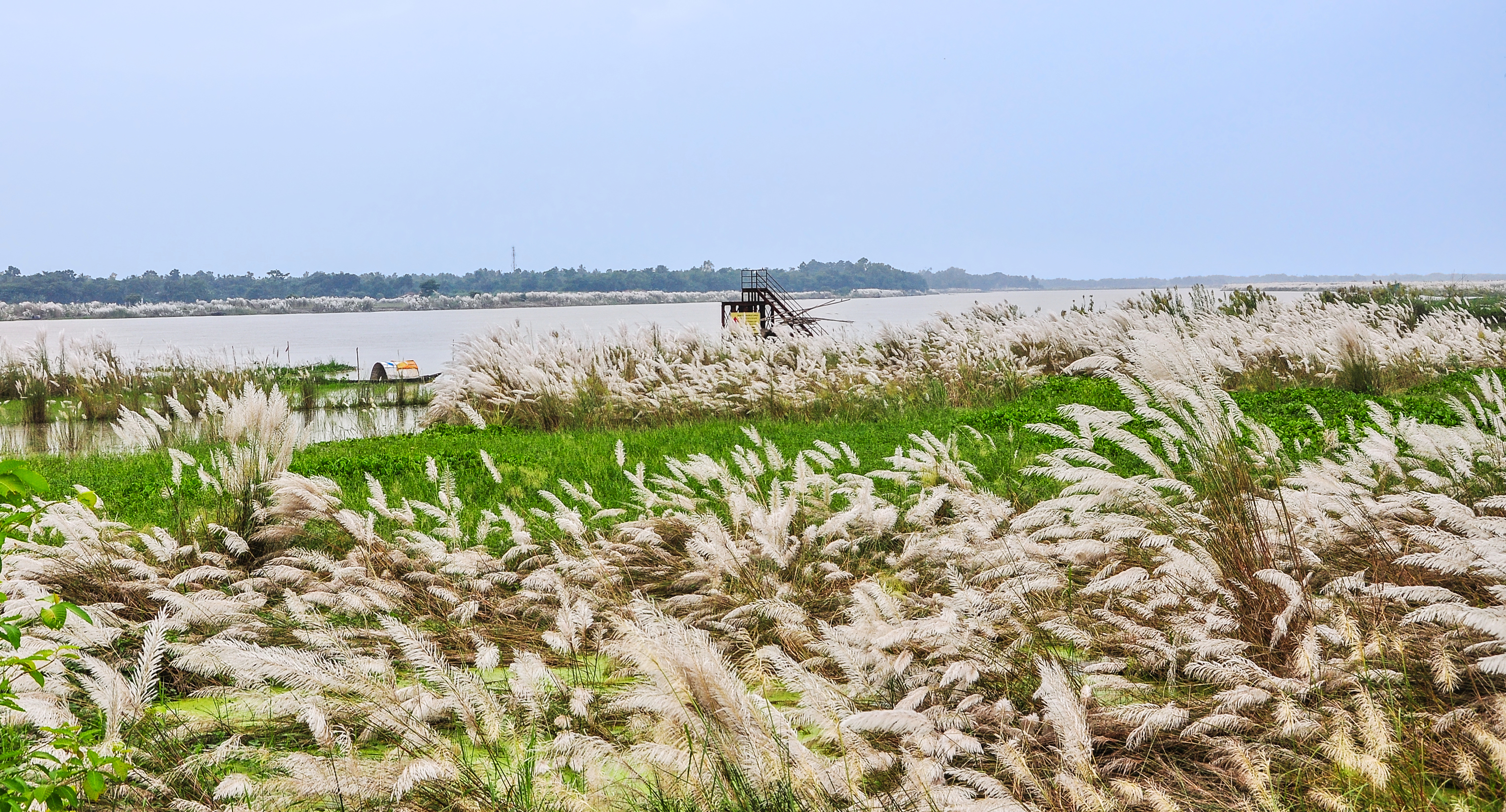 An afternoon shot at bank of river Ganges near ISKCON, Mayapur, India. The white flowers are Saccharum spontaneum which is grown on a large number across the bank of the river.